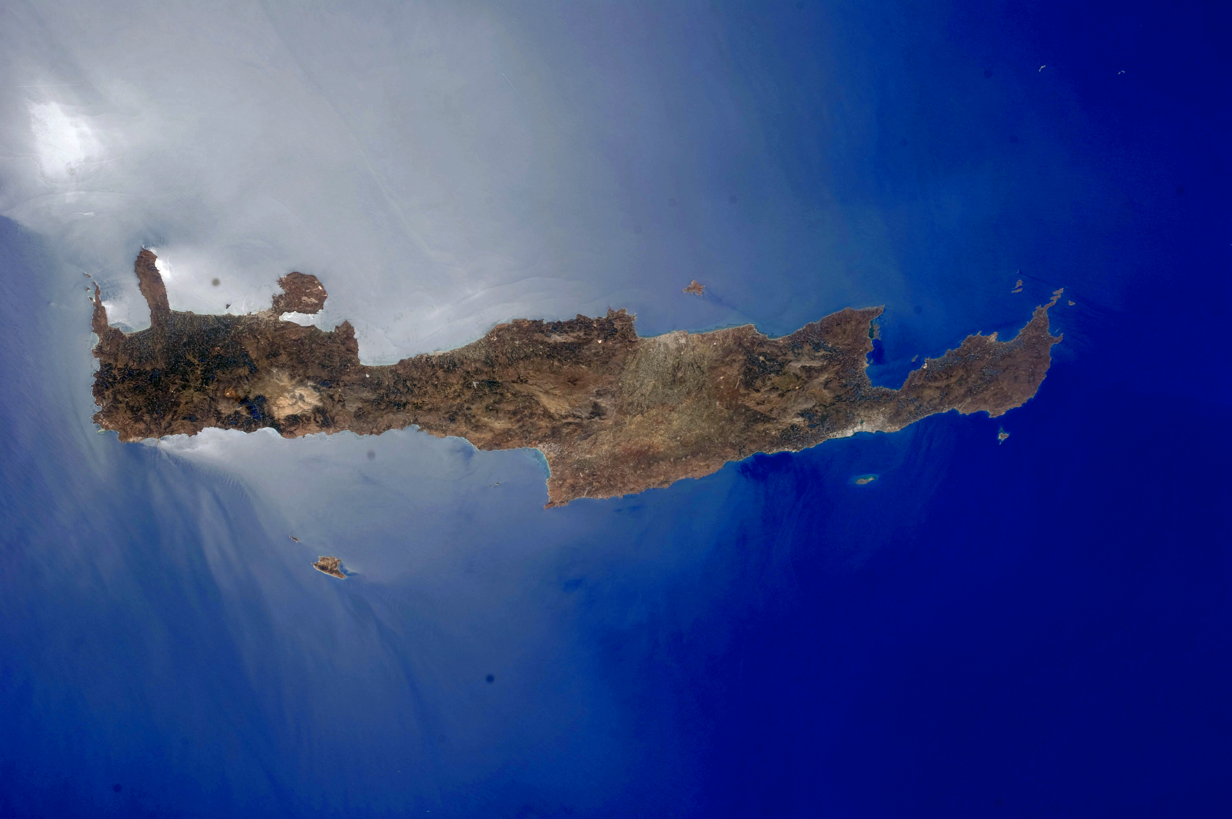 The western and central parts of Crete appear surrounded by quicksilver in this astronaut photograph taken from the International Space Station. This phenomenon is known as sunglint, caused by light reflecting off of the sea surface directly toward the observer. The point of maximum reflectance is visible as a bright white region to the north-west of the island. Surface currents causing variations in the degree of reflectance are visible near the south-western shoreline of Crete and the smaller island of Gavdos (image lower left).